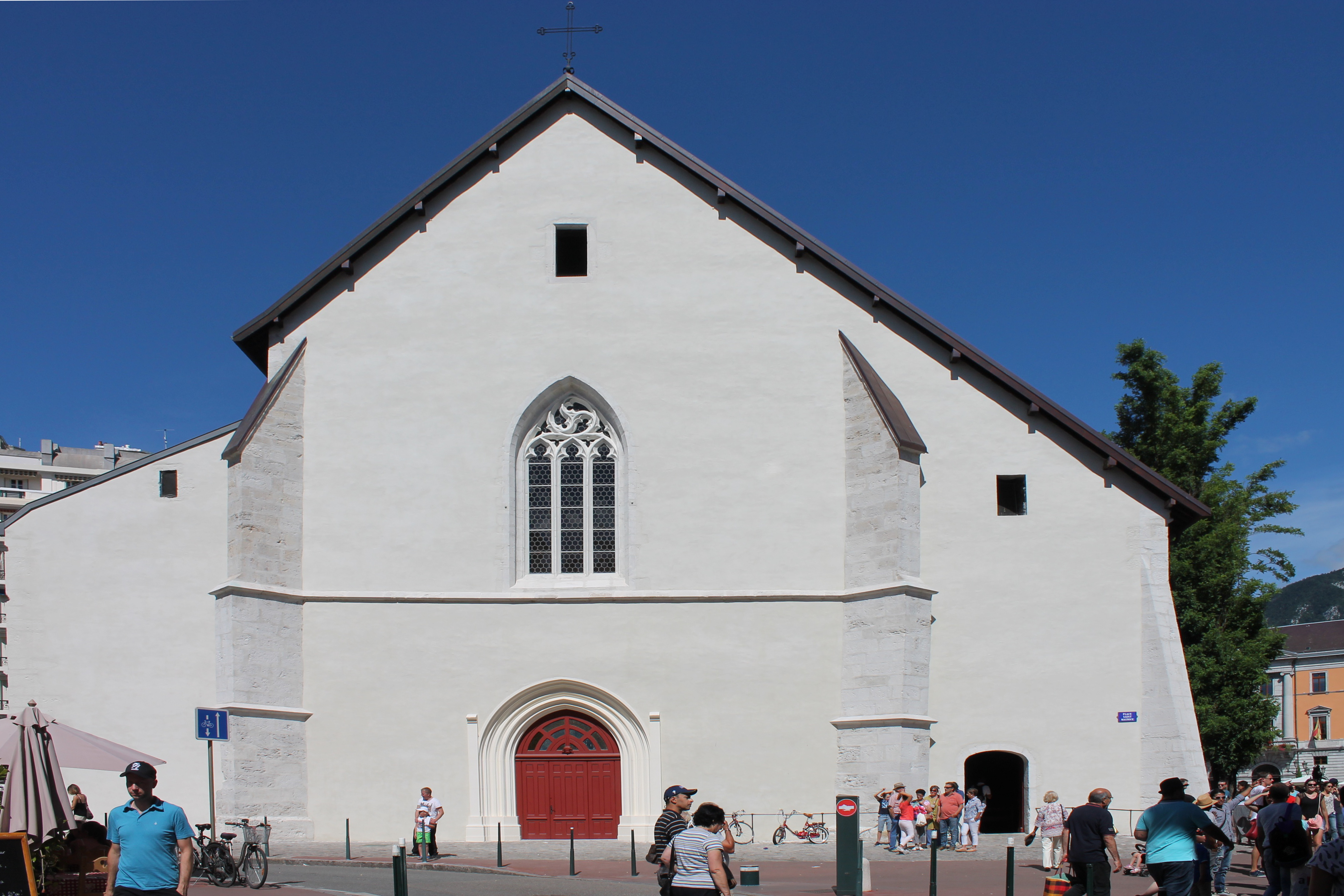 Church portals of Saint-Maurice church, in Annecy